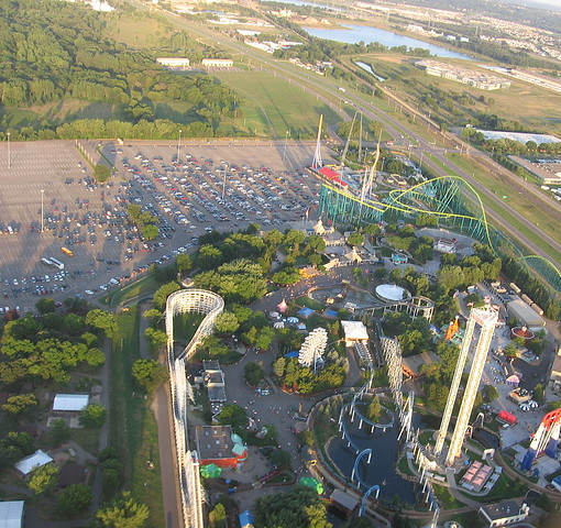 Aerial view of Valleyfair amusement park.